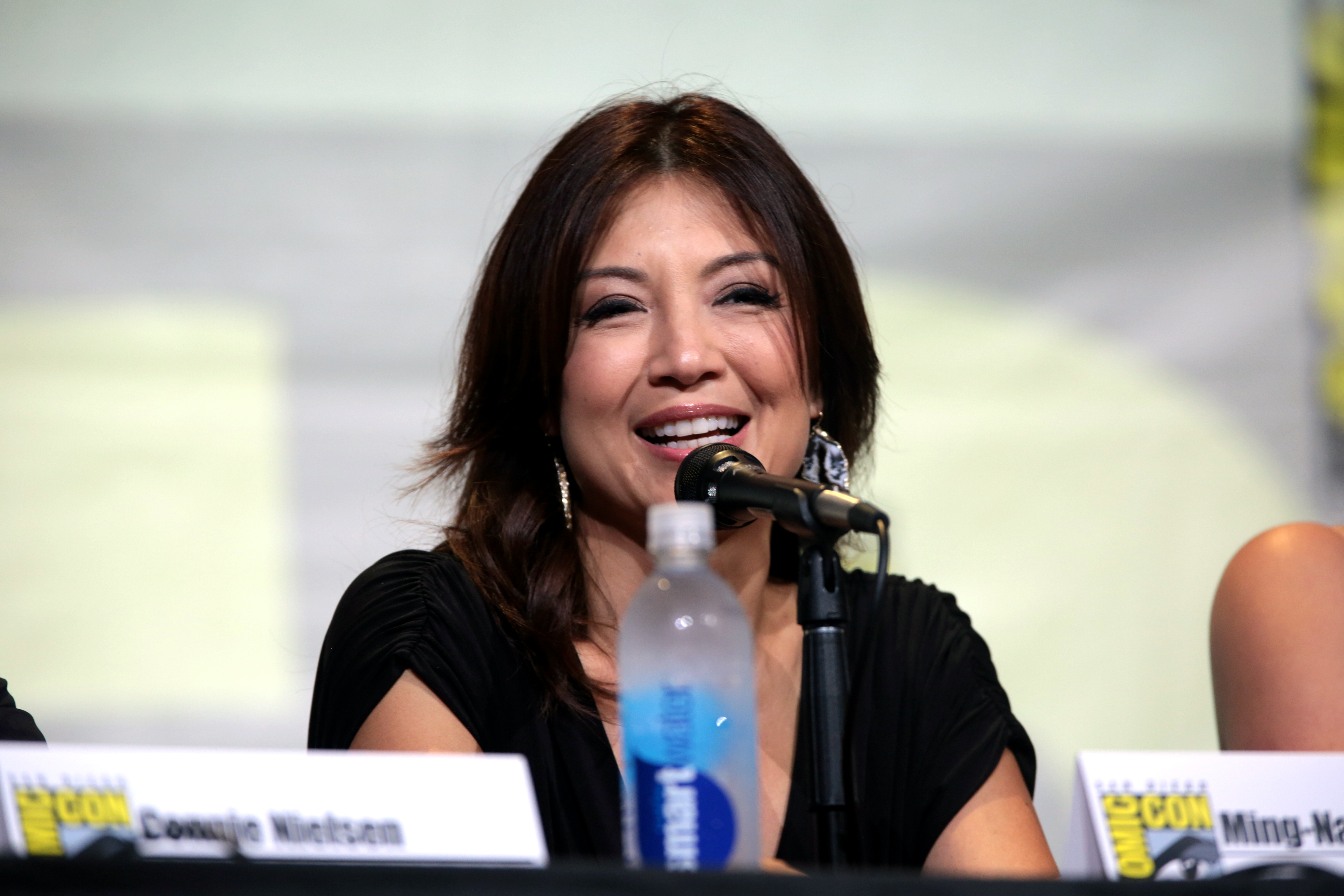 Ming-Na Wen speaking at the 2016 San Diego Comic Con International, for "Entertainment Weekly: Women Who Kick Ass", at the San Diego Convention Center in San Diego, California.